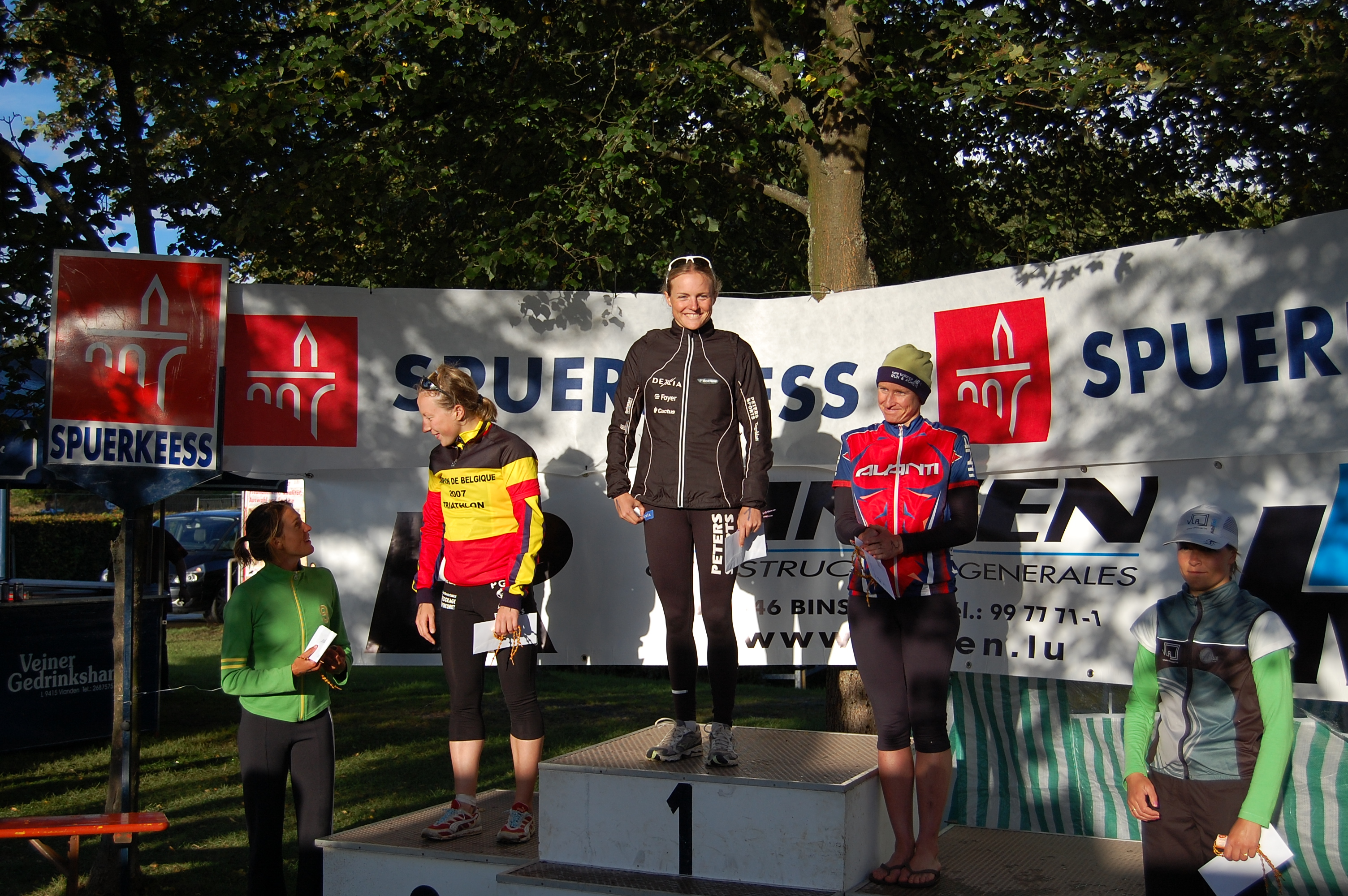 Women's overall podium of the 2007 International Weiswampach Triathlon.